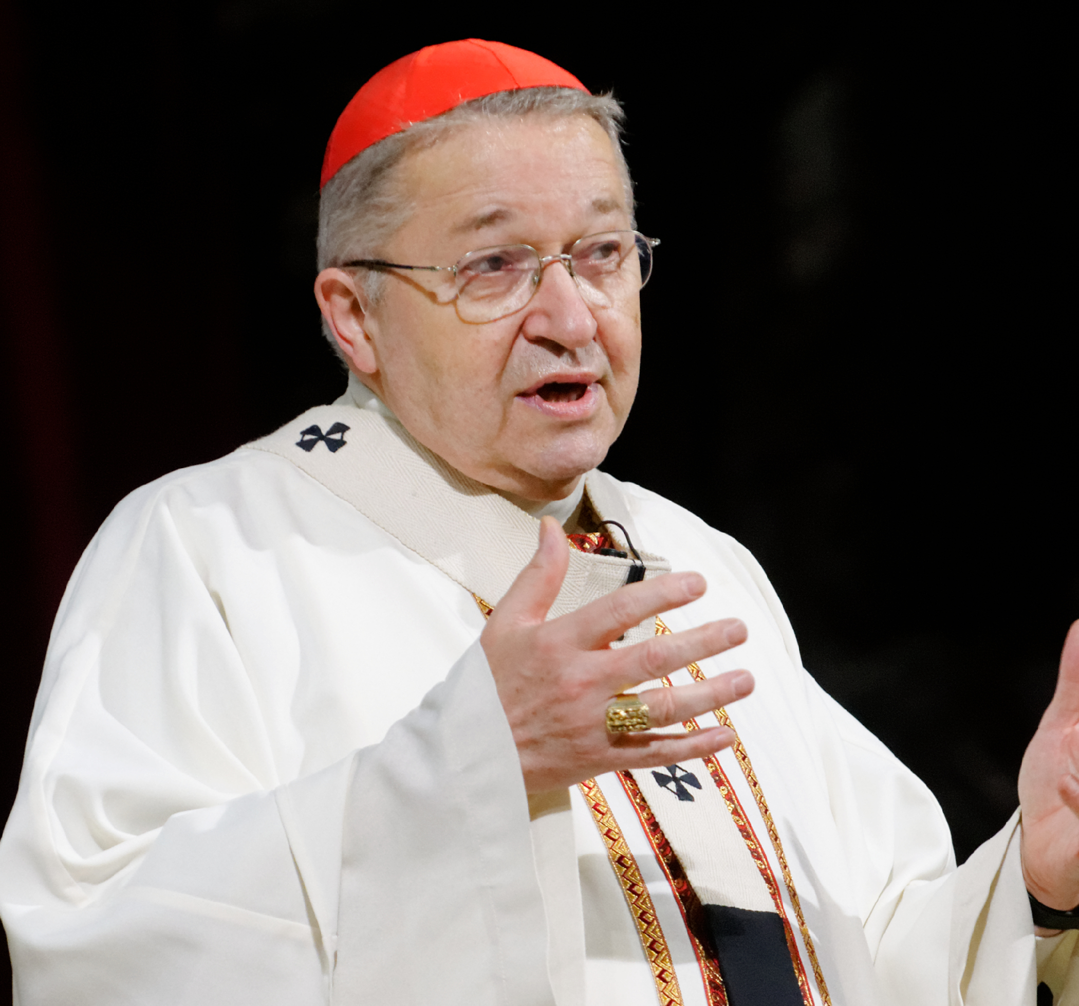 Mgr André Vingt-Trois welcomes the faithful. Île-de-France students' mass in Cathedral Notre Dame de Paris.